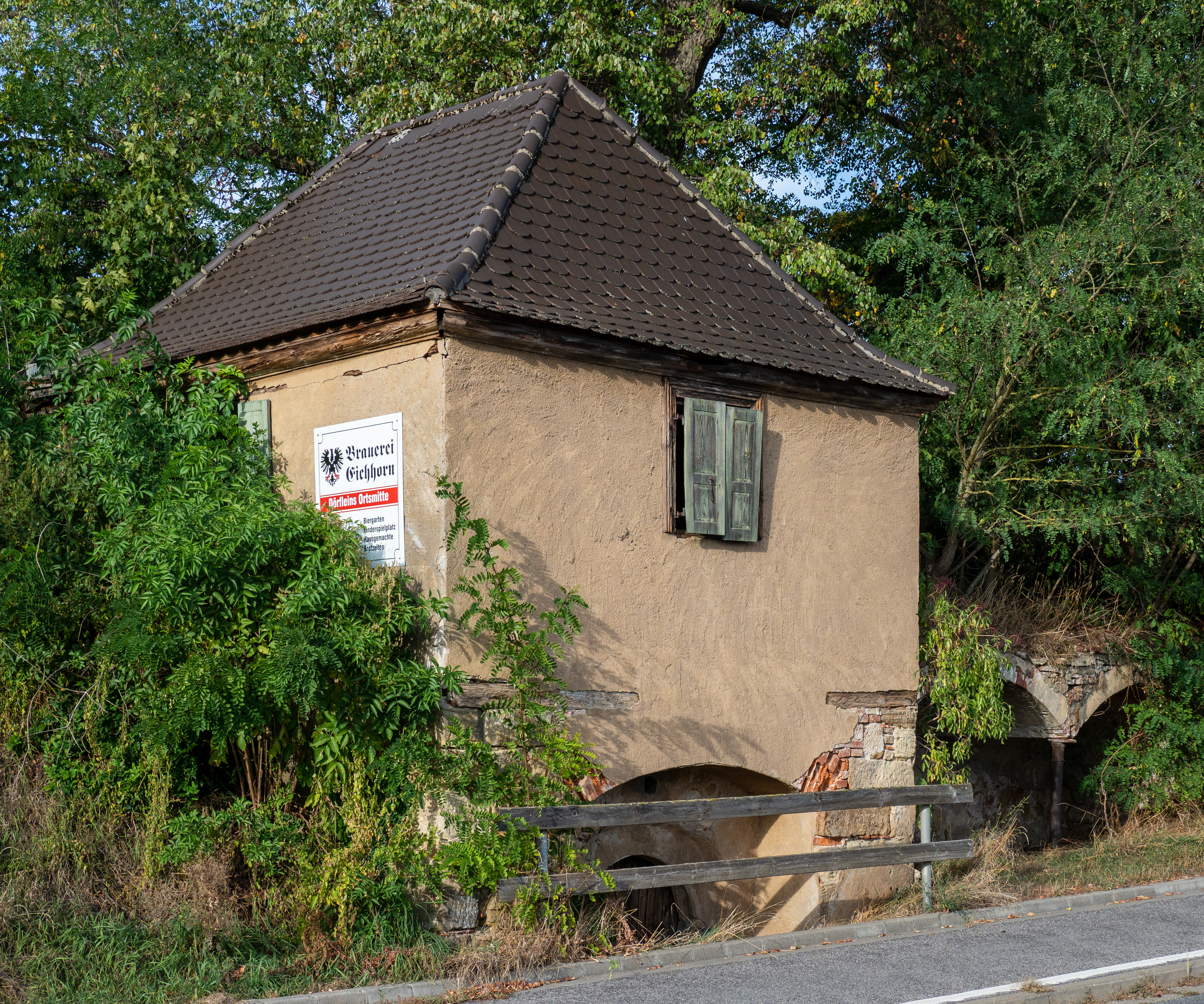 Cellar house in Dörfleins near Bamberg